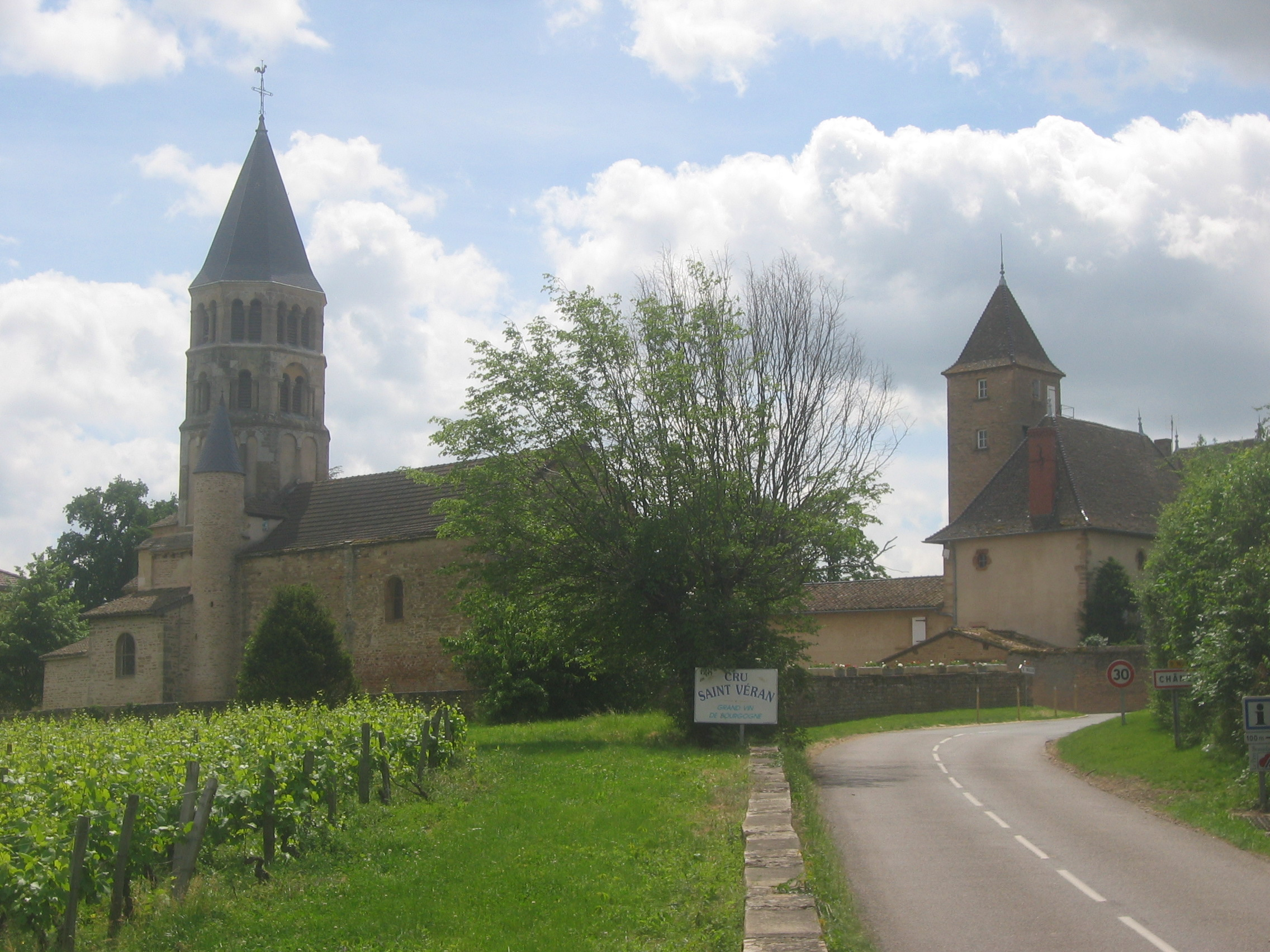 Village of Chânes (In France)